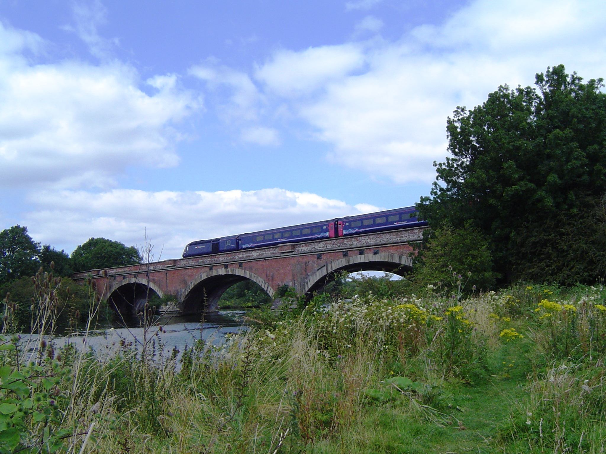 Moulsford Railway Bridge over the River Thames in Oxfordshire